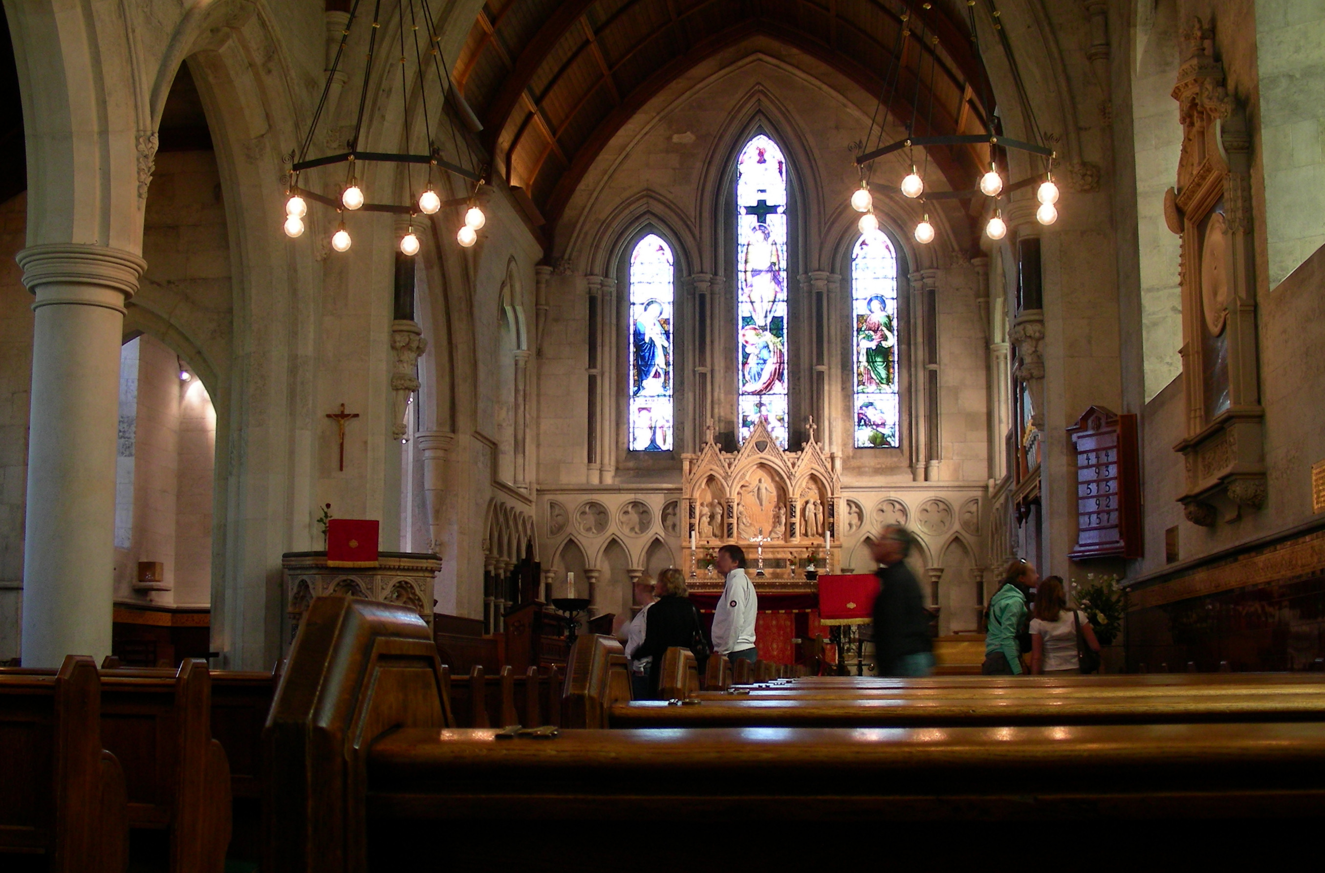 St. Alban's English Church, Copenhagen, Denmark Interior